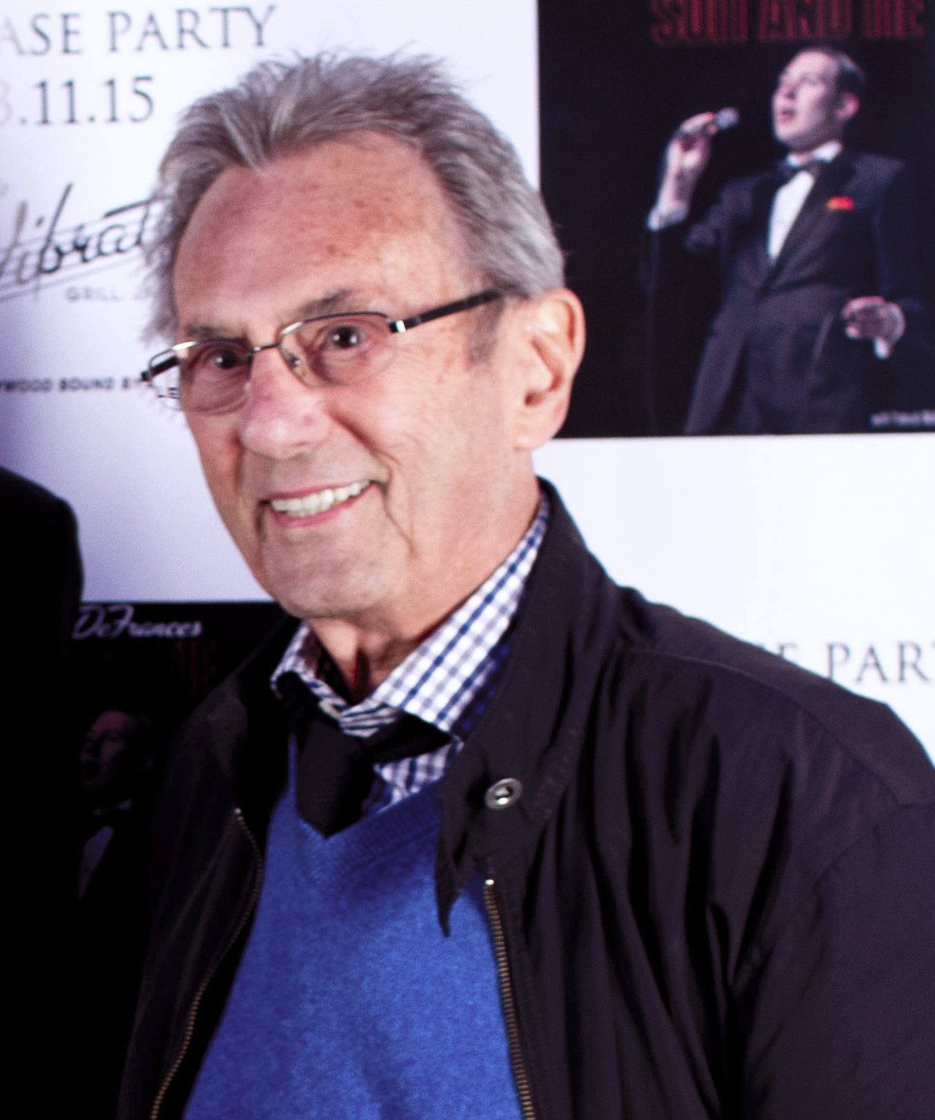 Al Schmitt in 2015 at James DeFrances release party